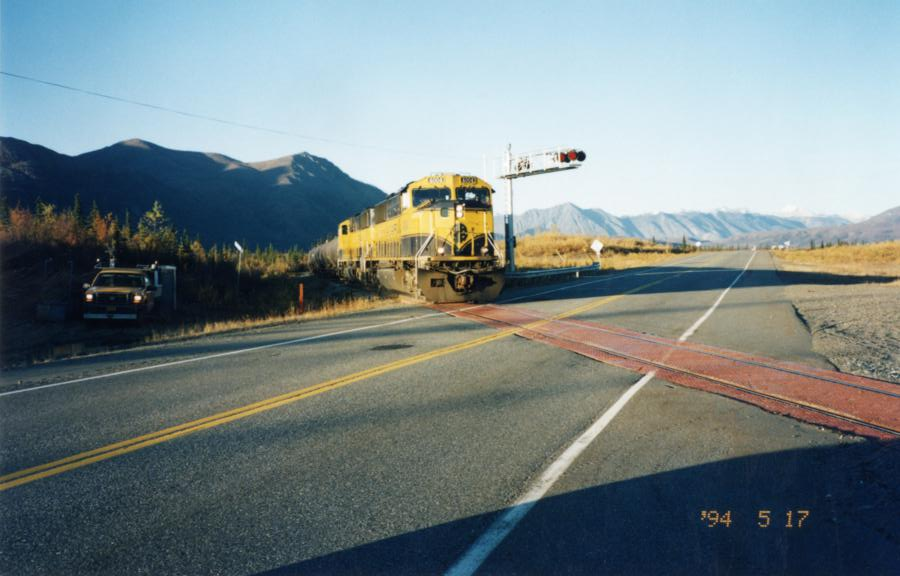 Alaska Railroad